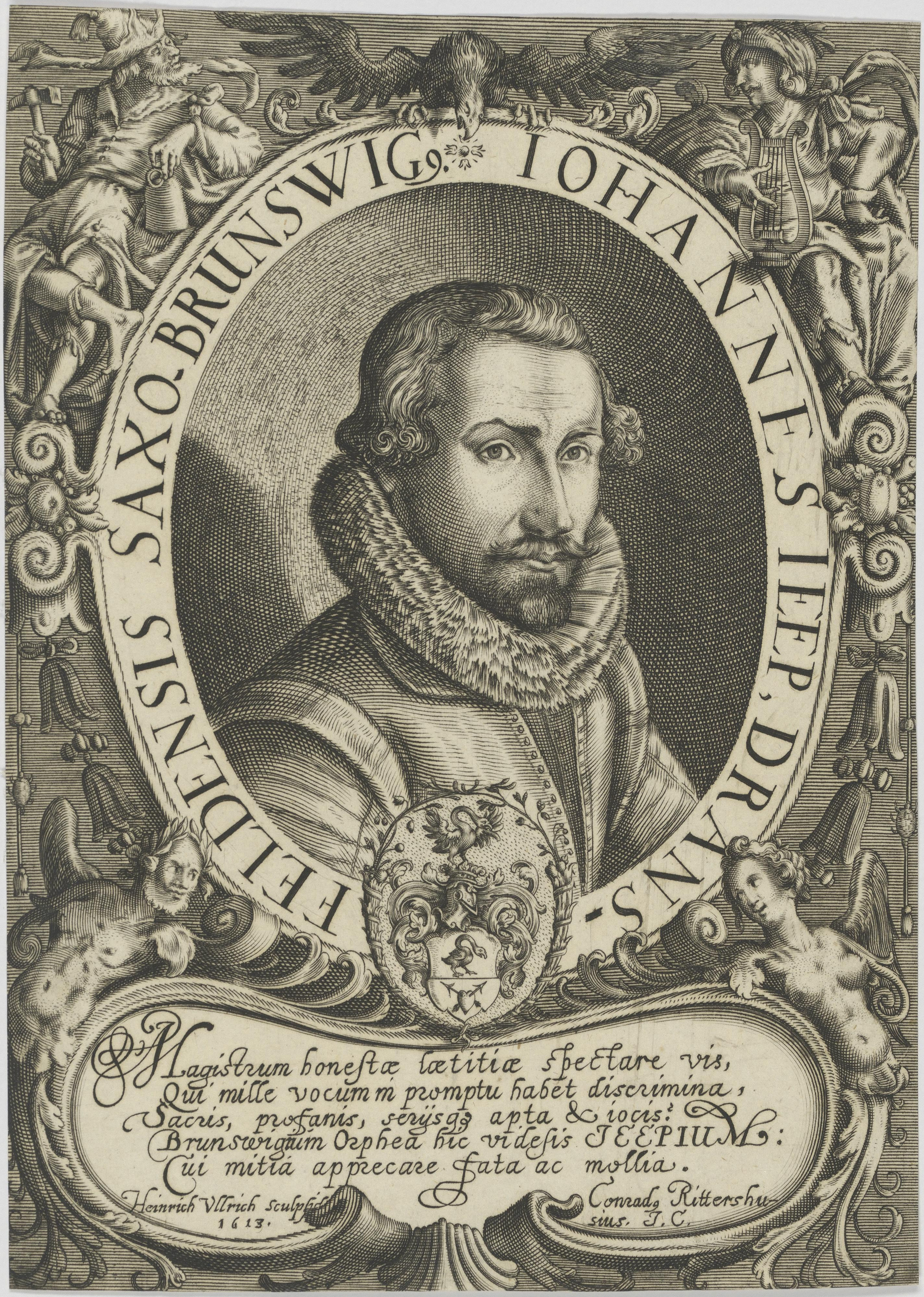 Engraved portrait of Johannes Jeep (1581/82 - 1644).